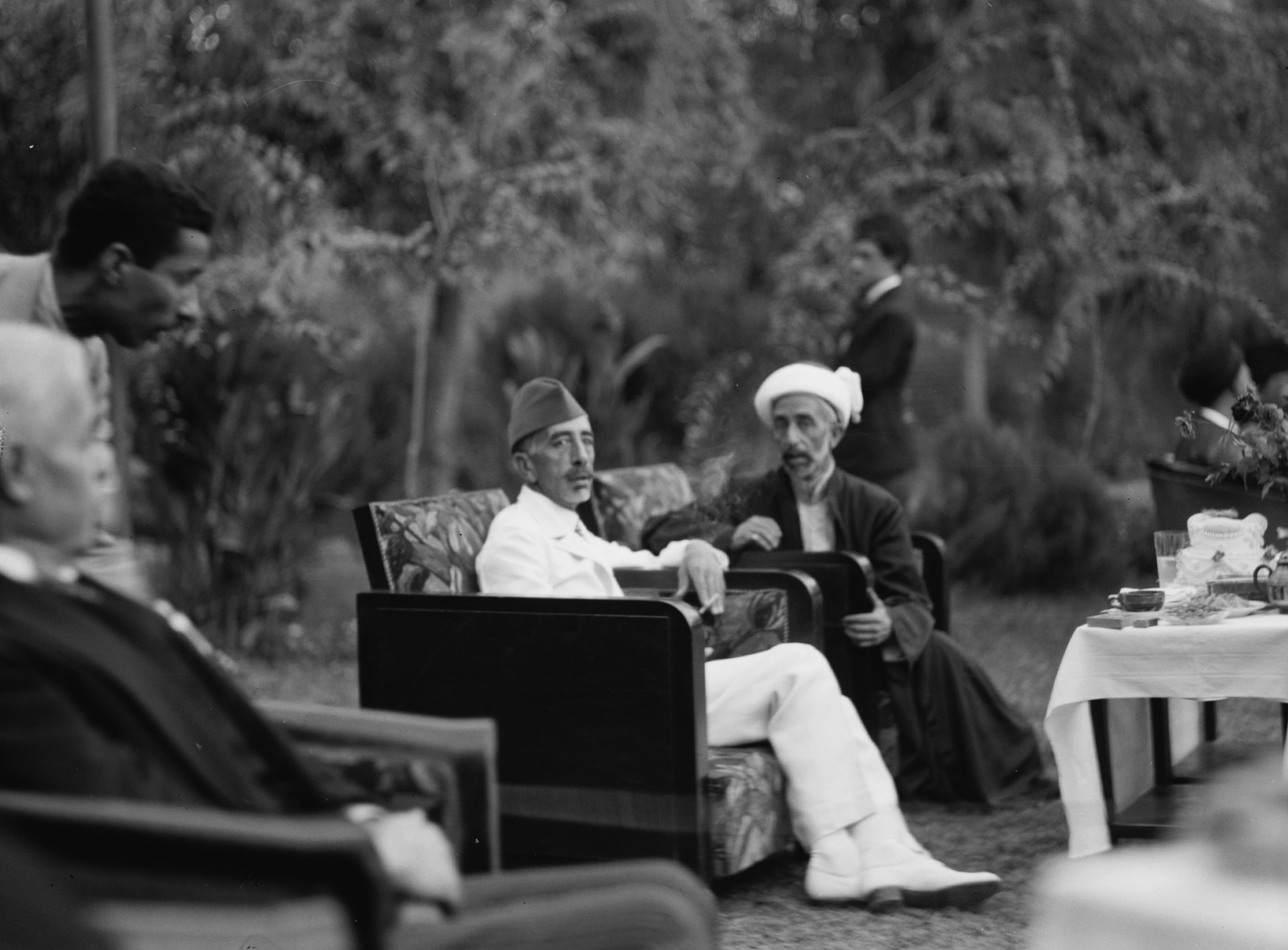 Title: King Faysal (Faisal) I of Iraq (left) probably with his brother Emir Abdullah of Transjordan, at the palace, Baghdad, Iraq Abstract/medium: G. Eric and Edith Matson Photograph Collection Physical description: 1 negative